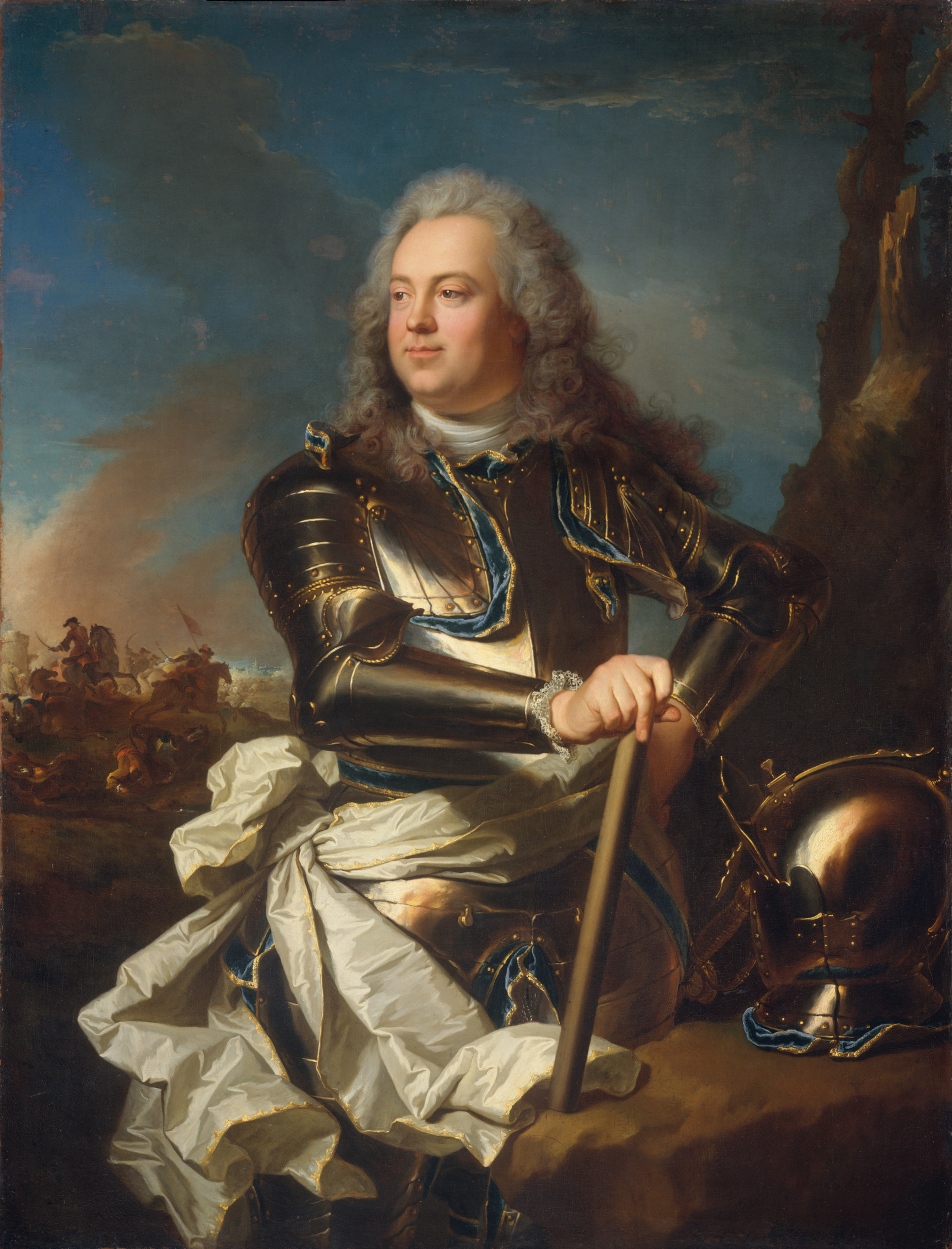 This portrait is based on a prototype by Rigaud showing the comte d'Évreux as a young man that was painted in about 1703. Louis Henri de La Tour d'Auvergne (1679-1753), Count of Évreux, Marshal of France